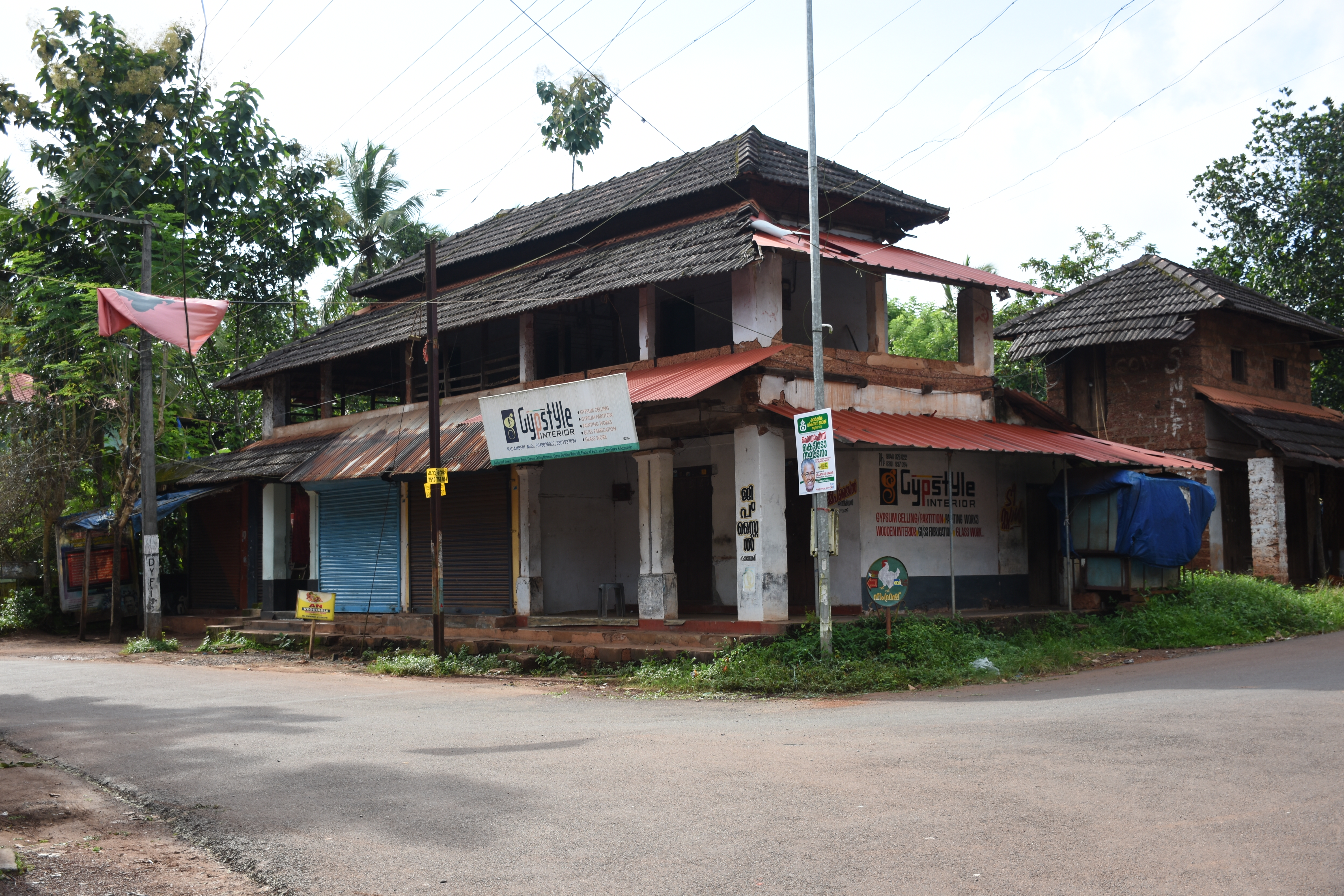 view from Muthirakkal-Kadambery road